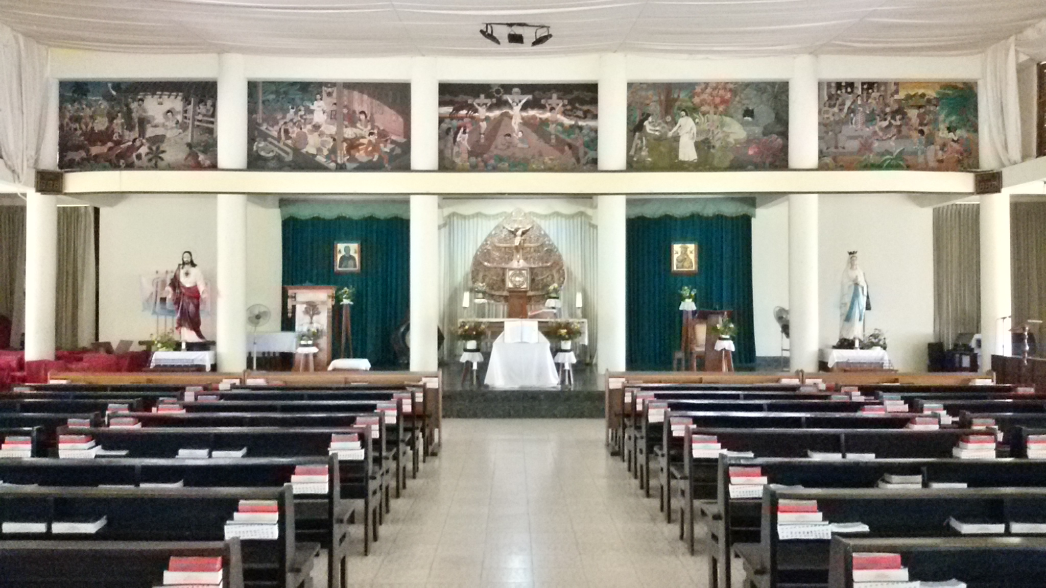 Inner room of St Alfonsus Church, Nandan, Yogyakarta